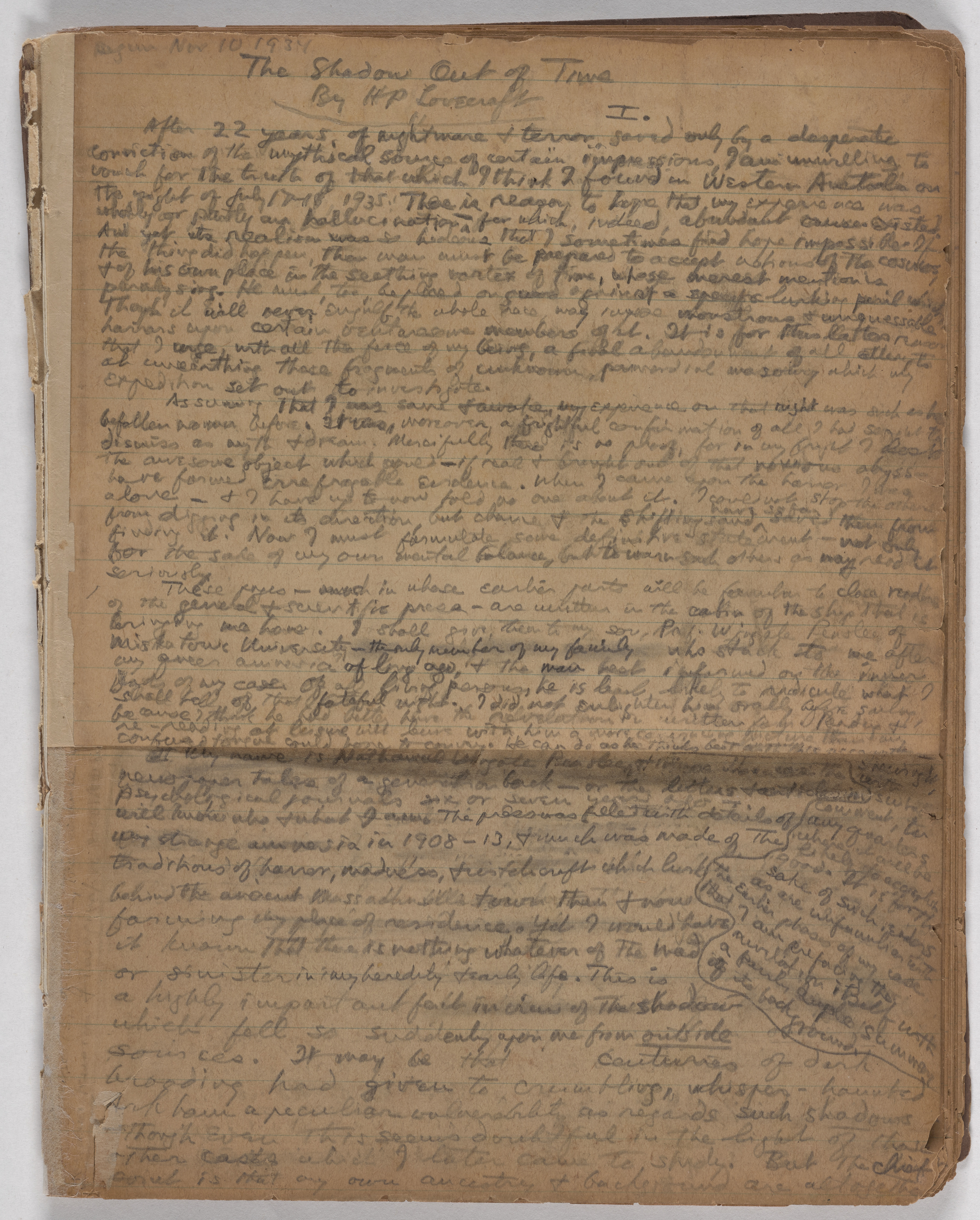 First page of the manuscript The Shadow Out of Time.